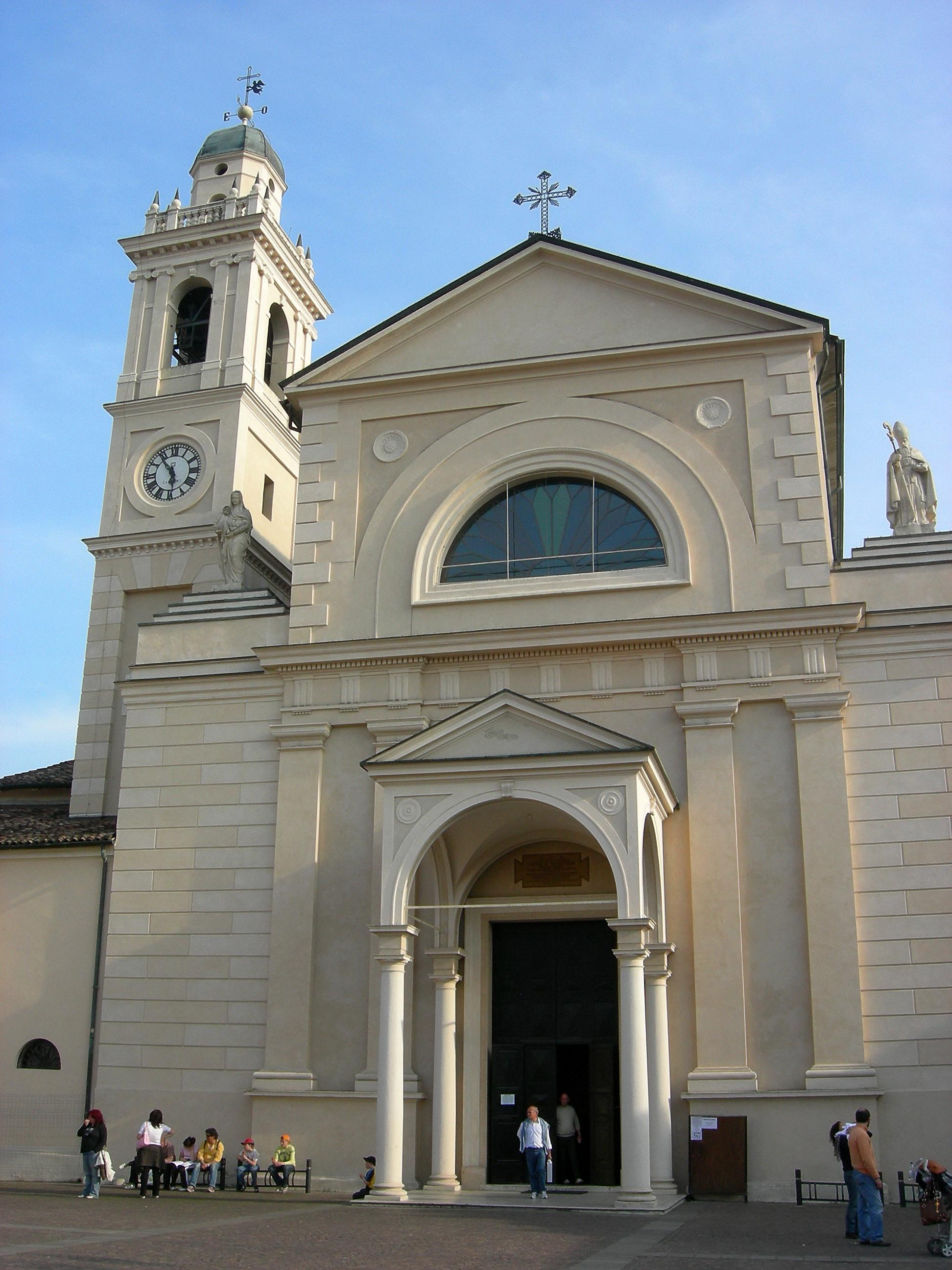 Santa Maria Nascente - Brescello